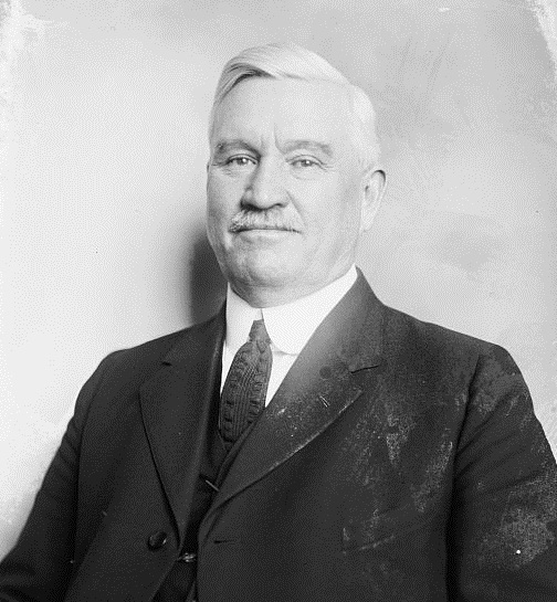 William W. Chalmers, congressman from Toledo, Ohio.